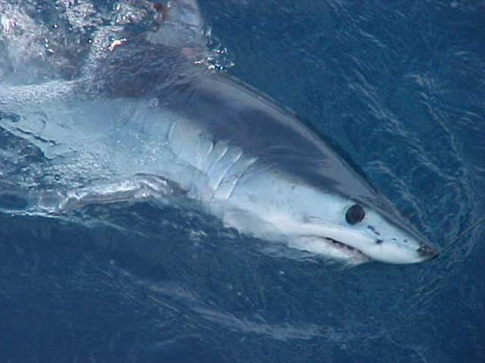 Shortfin mako shark (Isurus oxyrhinchus)